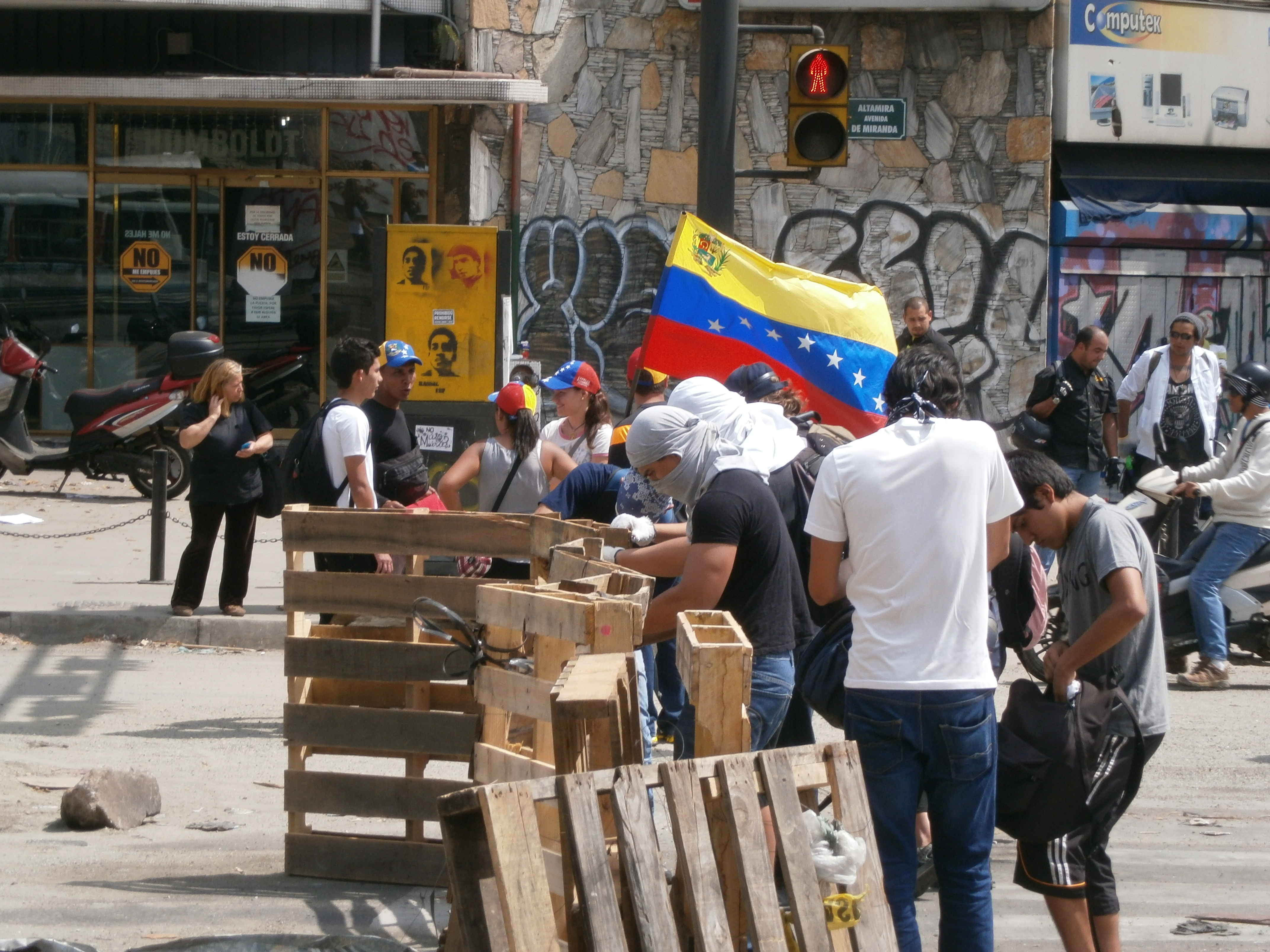 Venezuela protests against the Nicolas Maduro government, Altamira Square